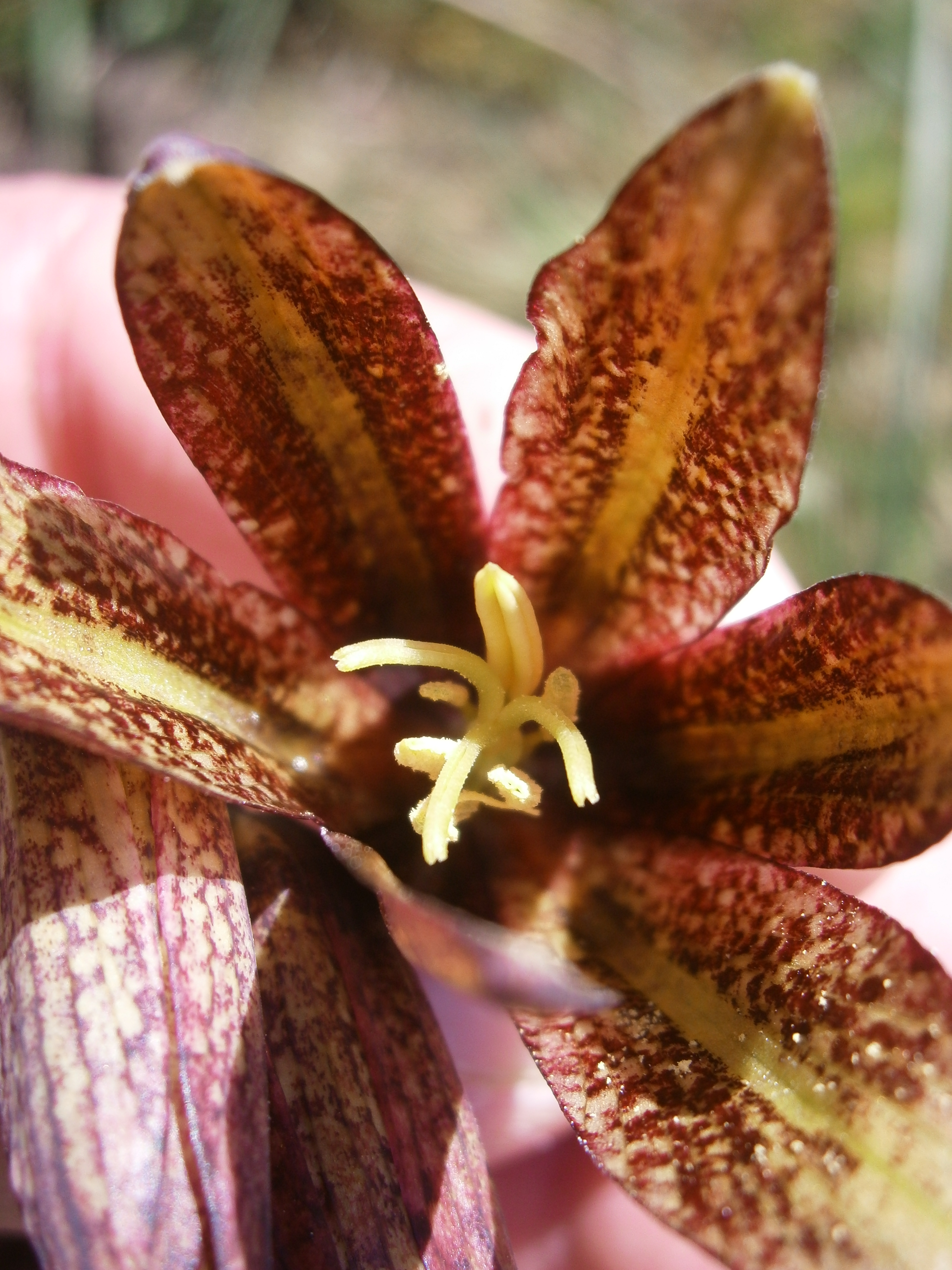 Fritillaria nigra inside flower